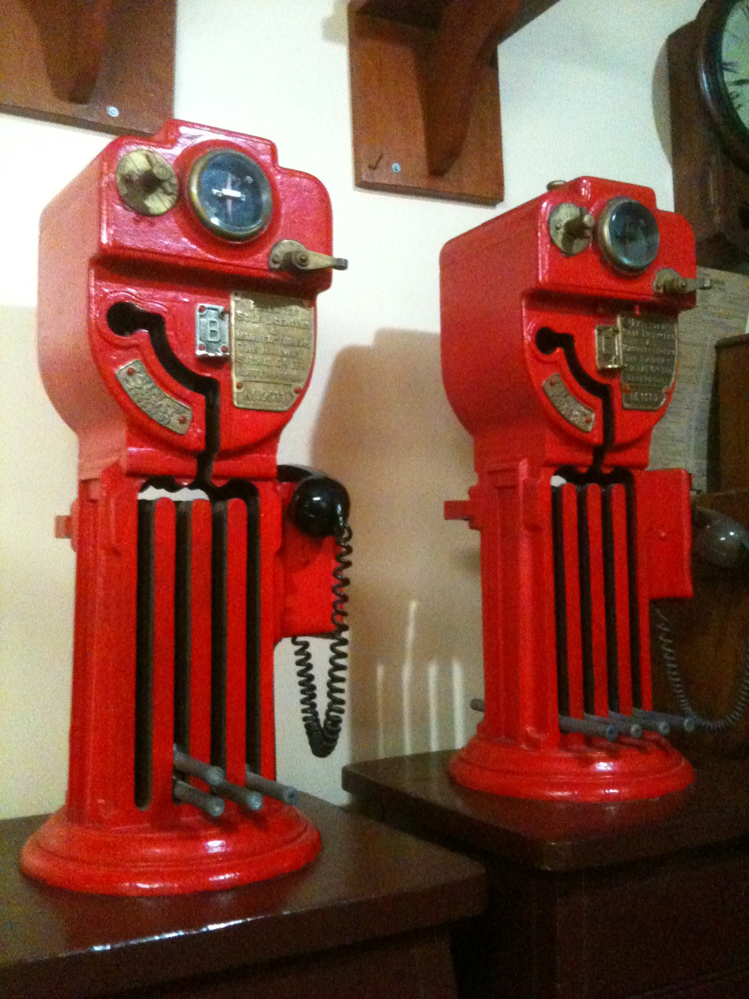 Electric staff working, token machine. Photo taken at the National Railway Museum, Port Adelaide, South Australia. December 2010.